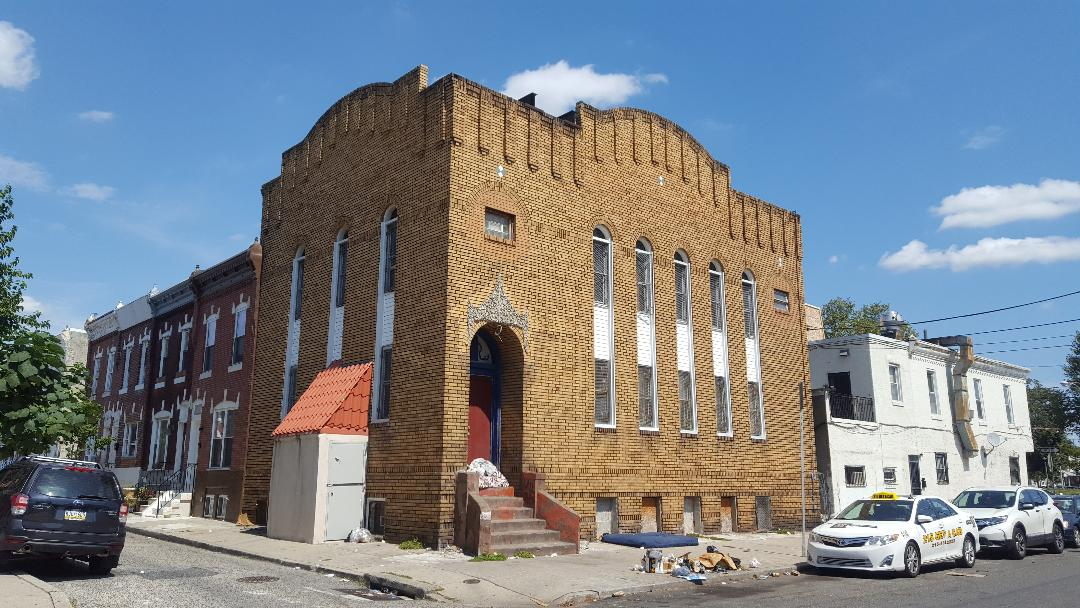 The former Adath Shalom synagogue at 607 W Ritner Street (at S Marshall St), Philadelphia, Pennsylvania on September 1, 2019.